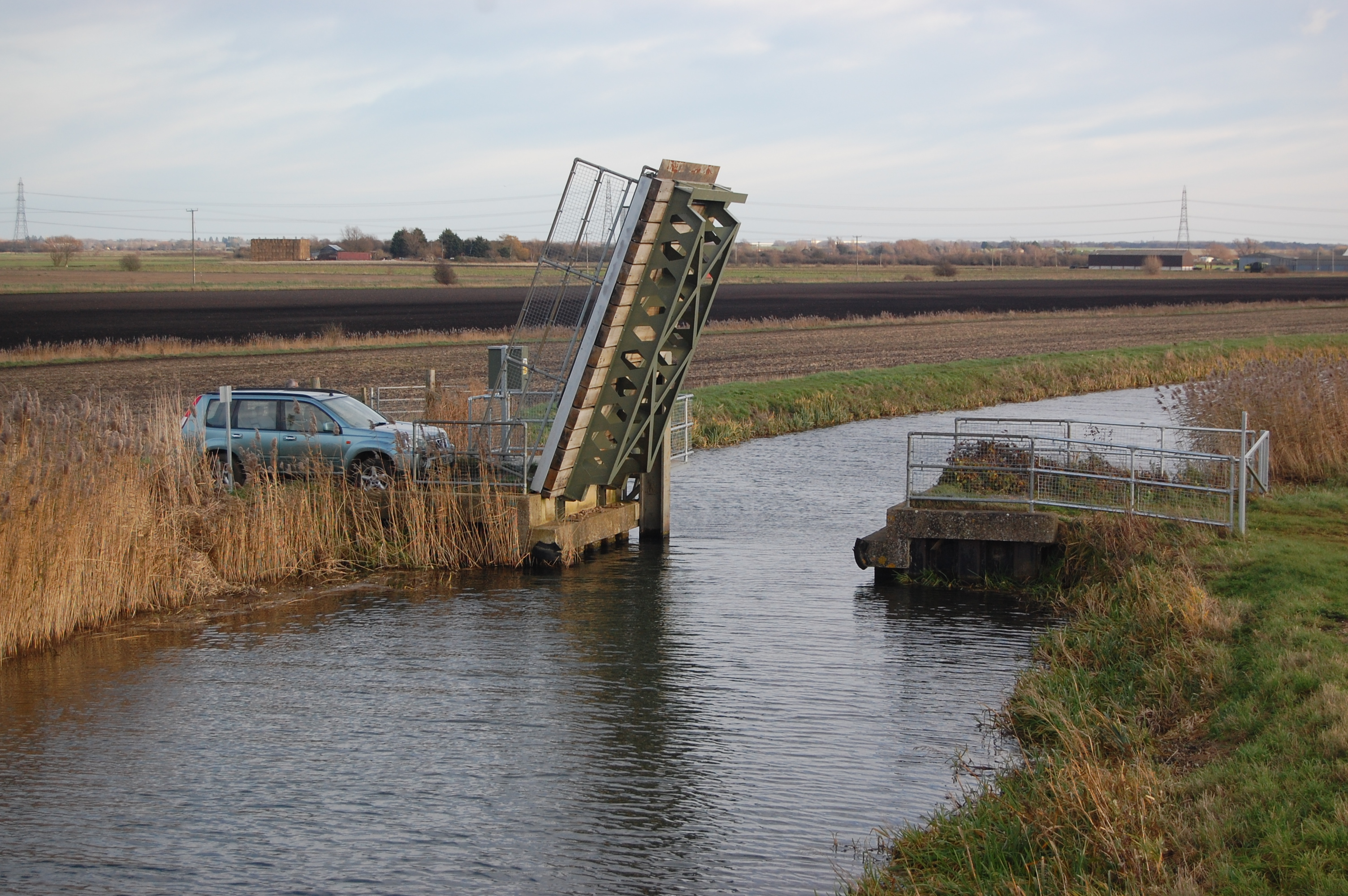 'Cockup Bridge', a lifting bridge over Burwell Lode at Wicken Fen, Cambridgeshire, England.